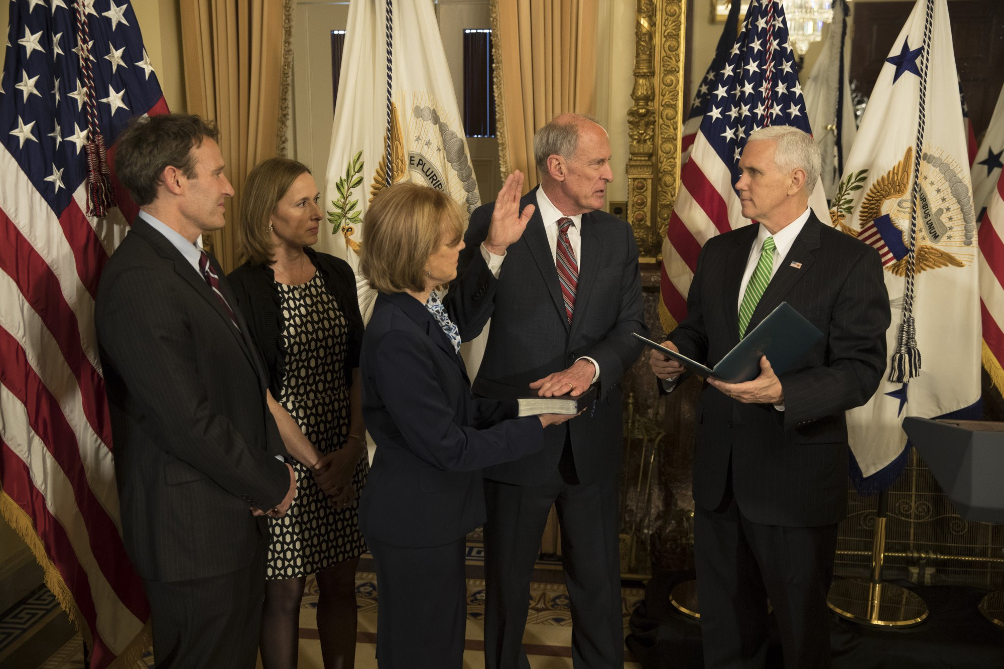 Intelligence Director Dan Coats sworn in by VP Mike Pence